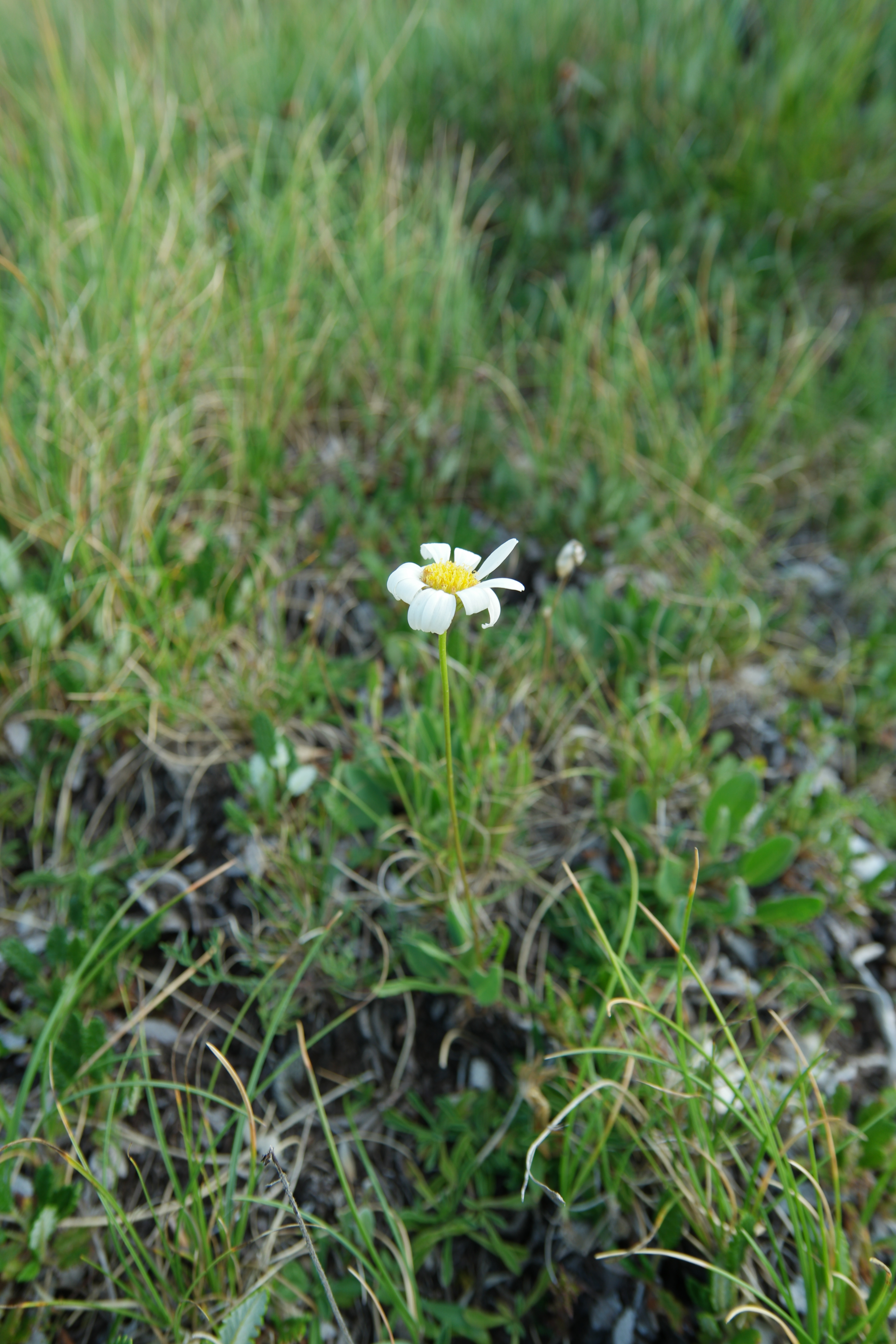 Leucanthemum chloroticum, endemic in the SE-Dinaric Alps (Montenegro, Hercegovina, Southern Dalmatia)